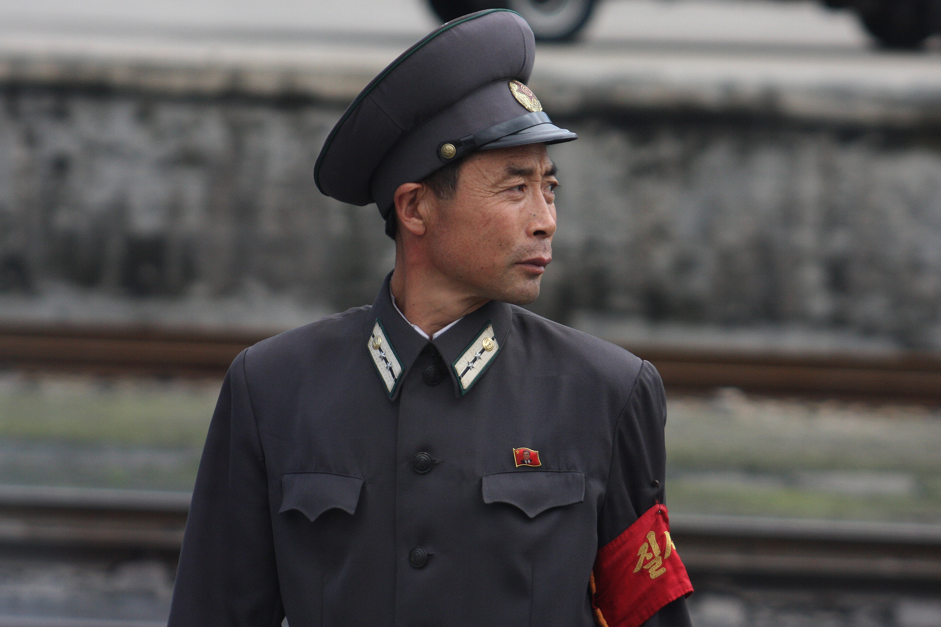 One of last station before we reached the chinese border.